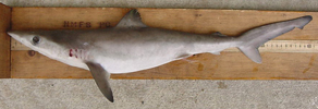 Juvenile night shark (Carcharhinus signatus) caught off Florida.